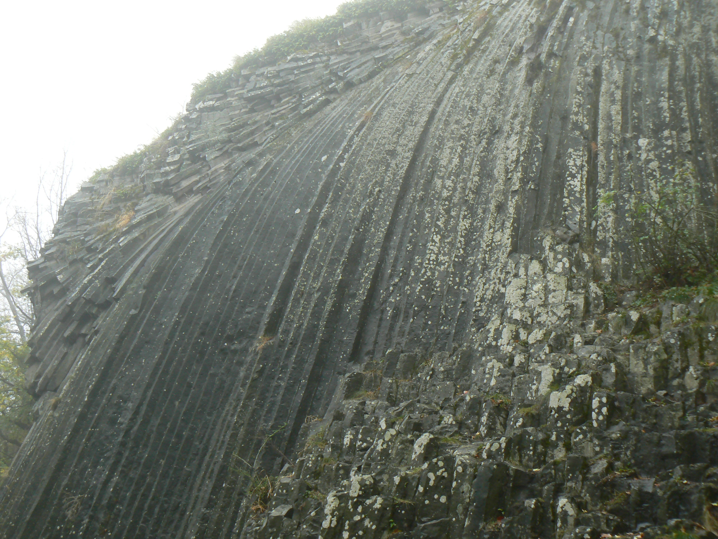 Šomoška Rocky waterfall, located on the border between Slovakia and Hungary